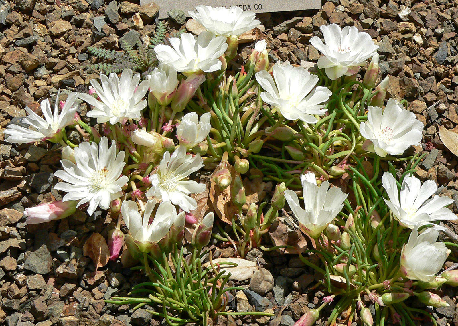 Lewisia rediviva at the University of California Botanical Garden, Berkeley, California